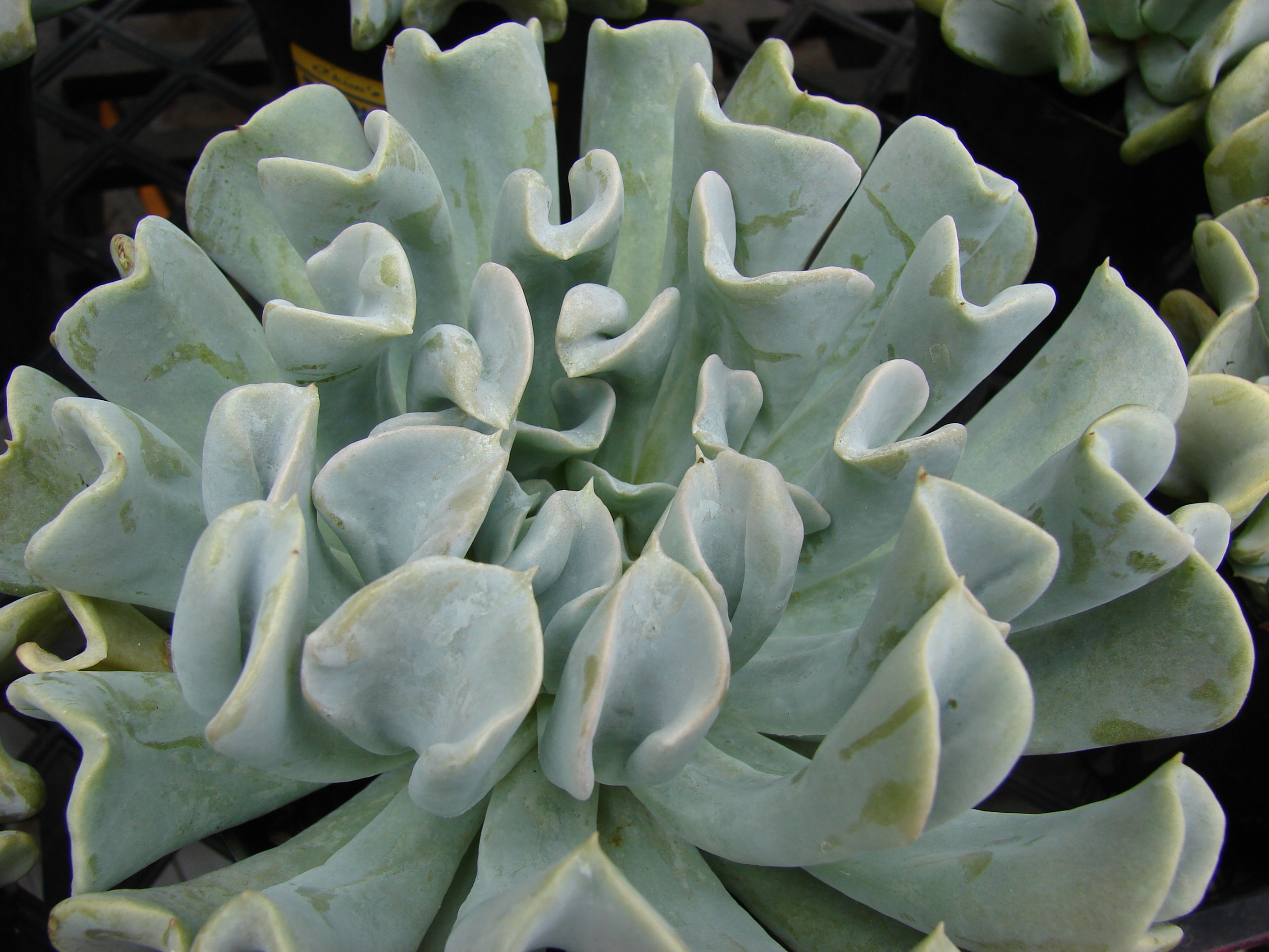 Echeveria runyonii "Topsy Turvy" at the Kula Ace Hardware and Nursery in Maui, Hawaii.